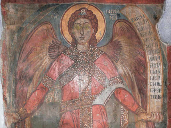 WALL PAINTINGS FROM THE LATE 15TH CENTURY IN THE MONASTERY CHURCH OF ST. PARASKEVE — BRAJČINO, Macedonia